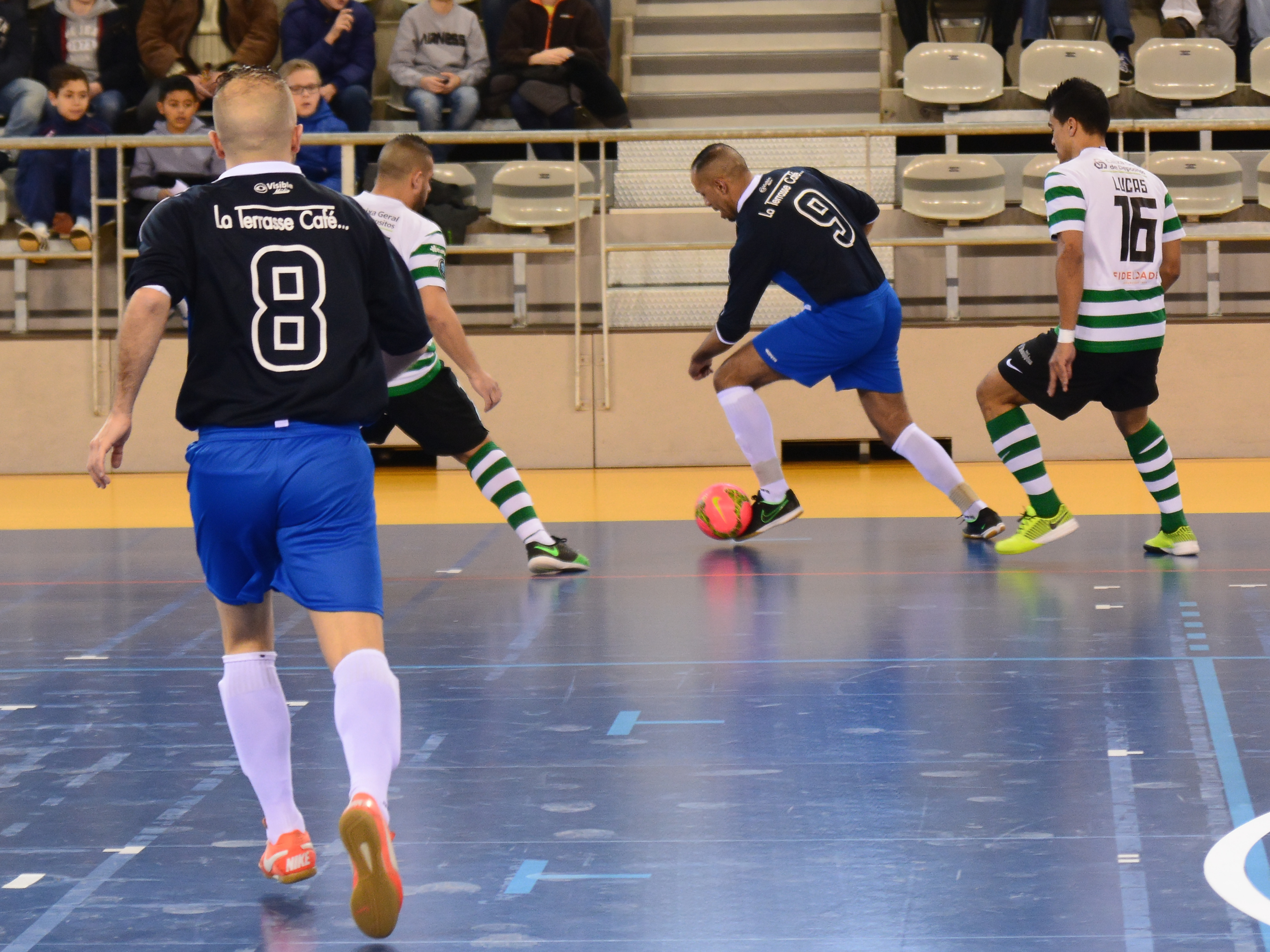 This image was taken with a Tamron SP AF 24-70mm F / 2.8 Di VC USD objective for Nikon digital single-lens reflex camera donated for photos by Wikimédia France. English | français | +/− Personality rights warningAlthough this work is freely licensed or in the public domain, the person(s) shown may have rights that legally restrict certain re-uses unless those depicted consent to such uses. In these cases, a model release or other evidence of consent could protect you from infringement claims.